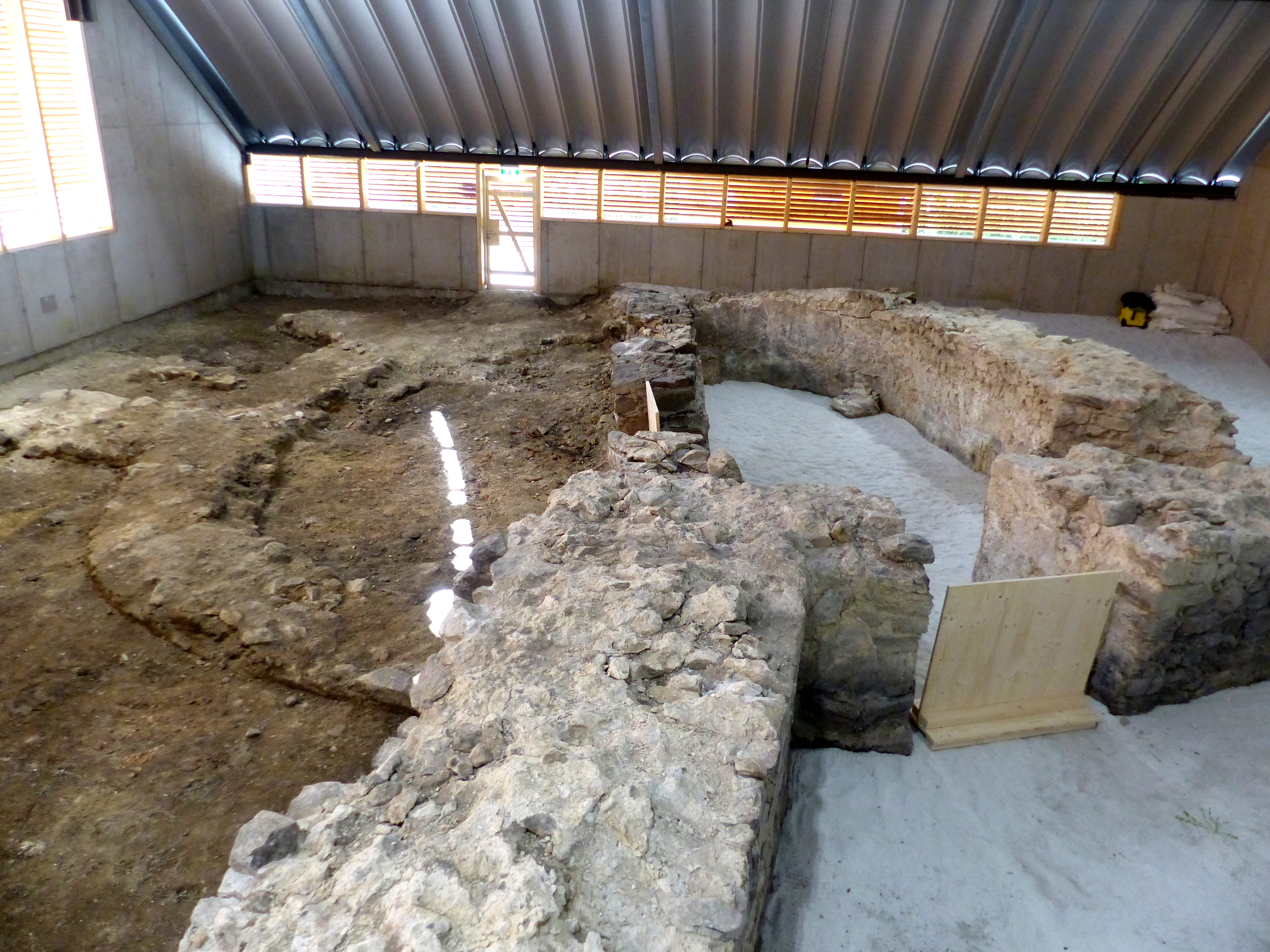 Ancient Roman fortress ( burgus ) in Oberranna ( Upper Austria ) - Western tower ( 4th century AD )